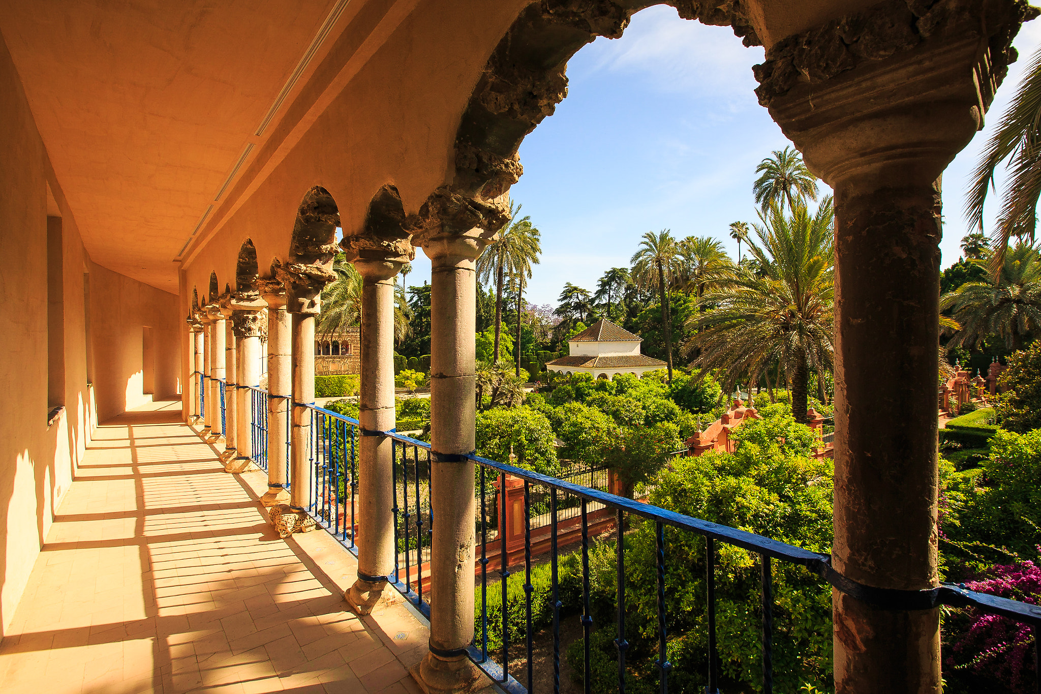 500px provided description: Seville Alcázar Garden [#garden ,#Spain ,#Seville ,#Andalusia ,#Alcazar ,#Alc?zar ,#Game of Thrones ,#Dorne]